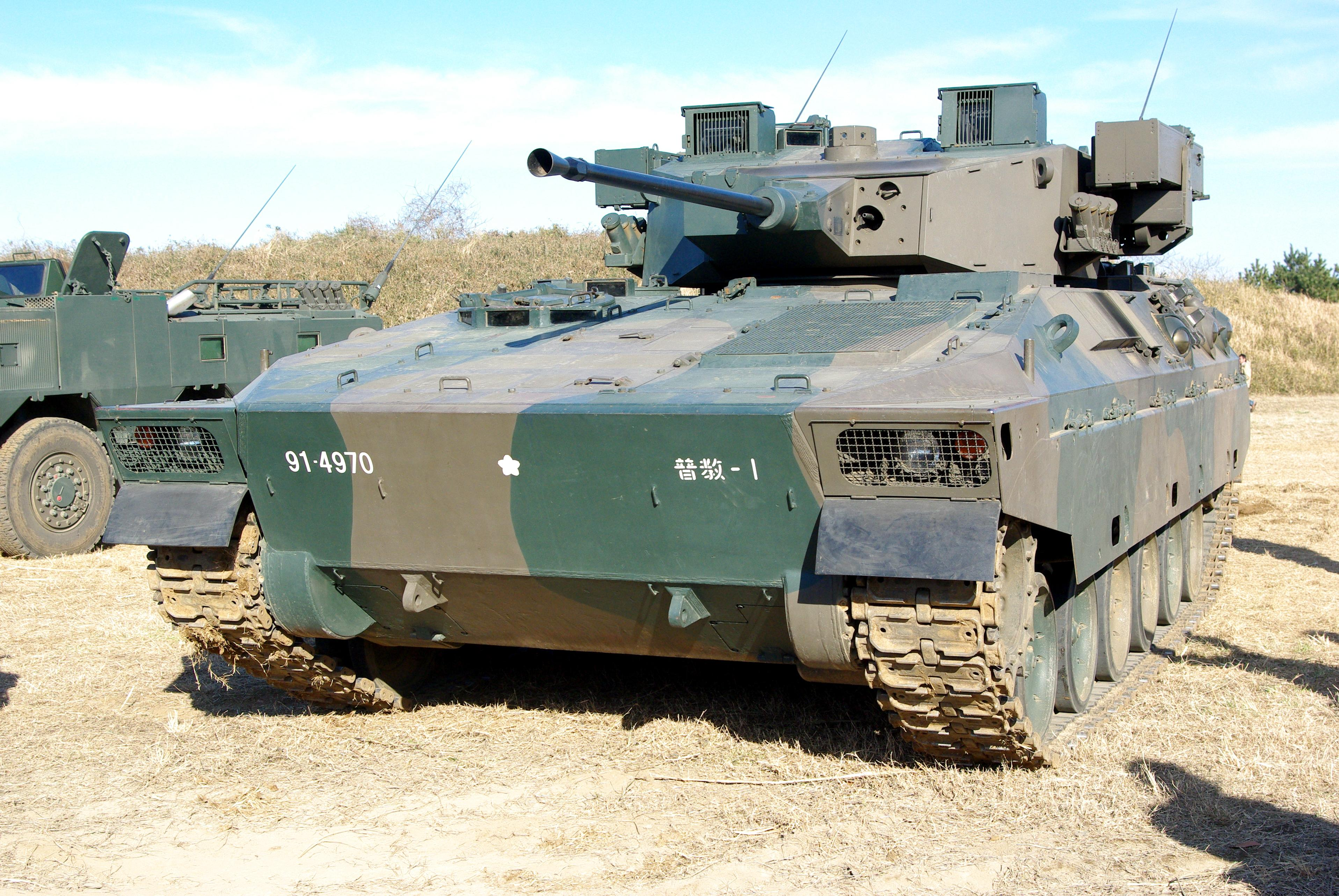 JGSDF IFV Type89.Taken by Los688,in Narashino,Japan,at 08-Jan-2012,JGSDF 1st Airborne Brigade 2012 first drop manuver.PD-self ja:89式装甲戦闘車 2012年01月08日、普通科教導隊、習志野演習場で撮影。